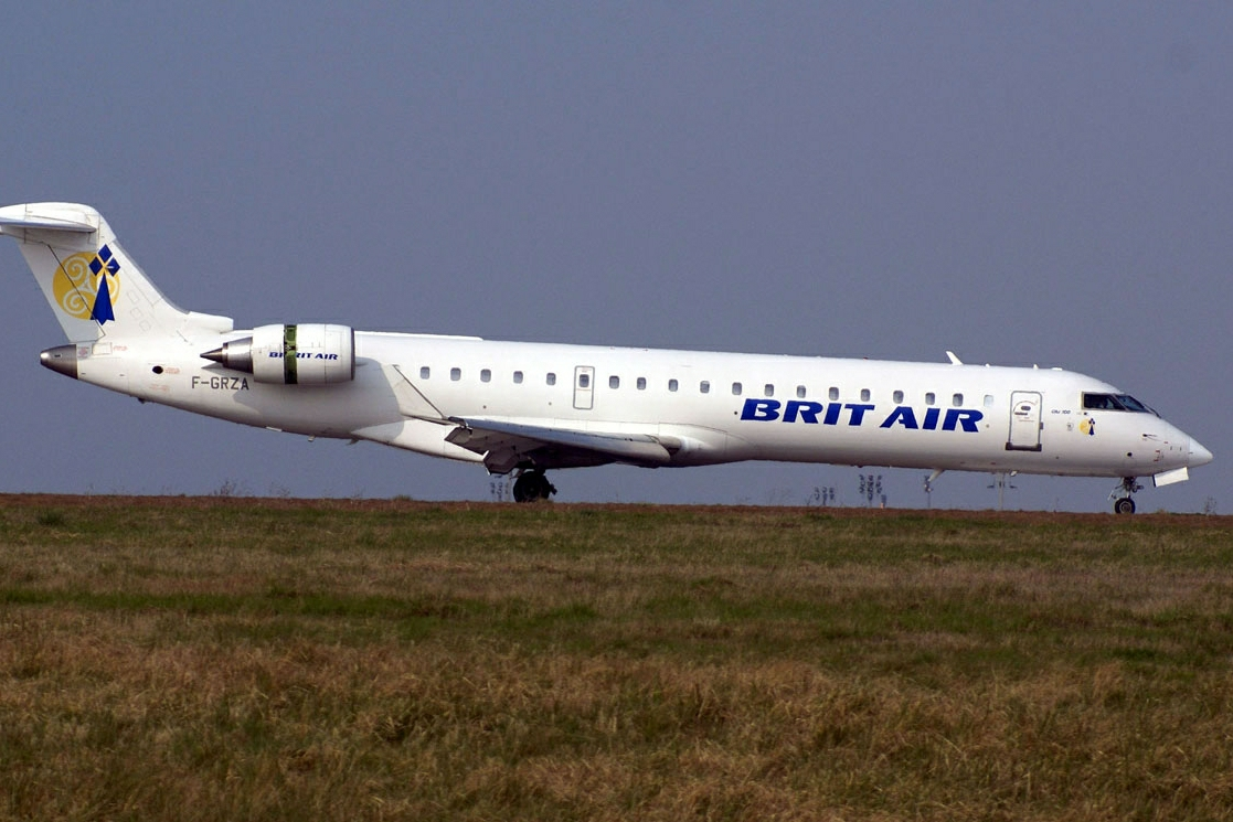 MSN 10006 CRJ-700 BRITAIR / AIR FRANCE CDG